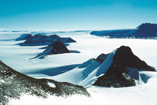 Looking north-north-east from Alligator Peak in the Boomerange ranges, towards Allemand Peak, Moody Peak, and Icefall Nunatek